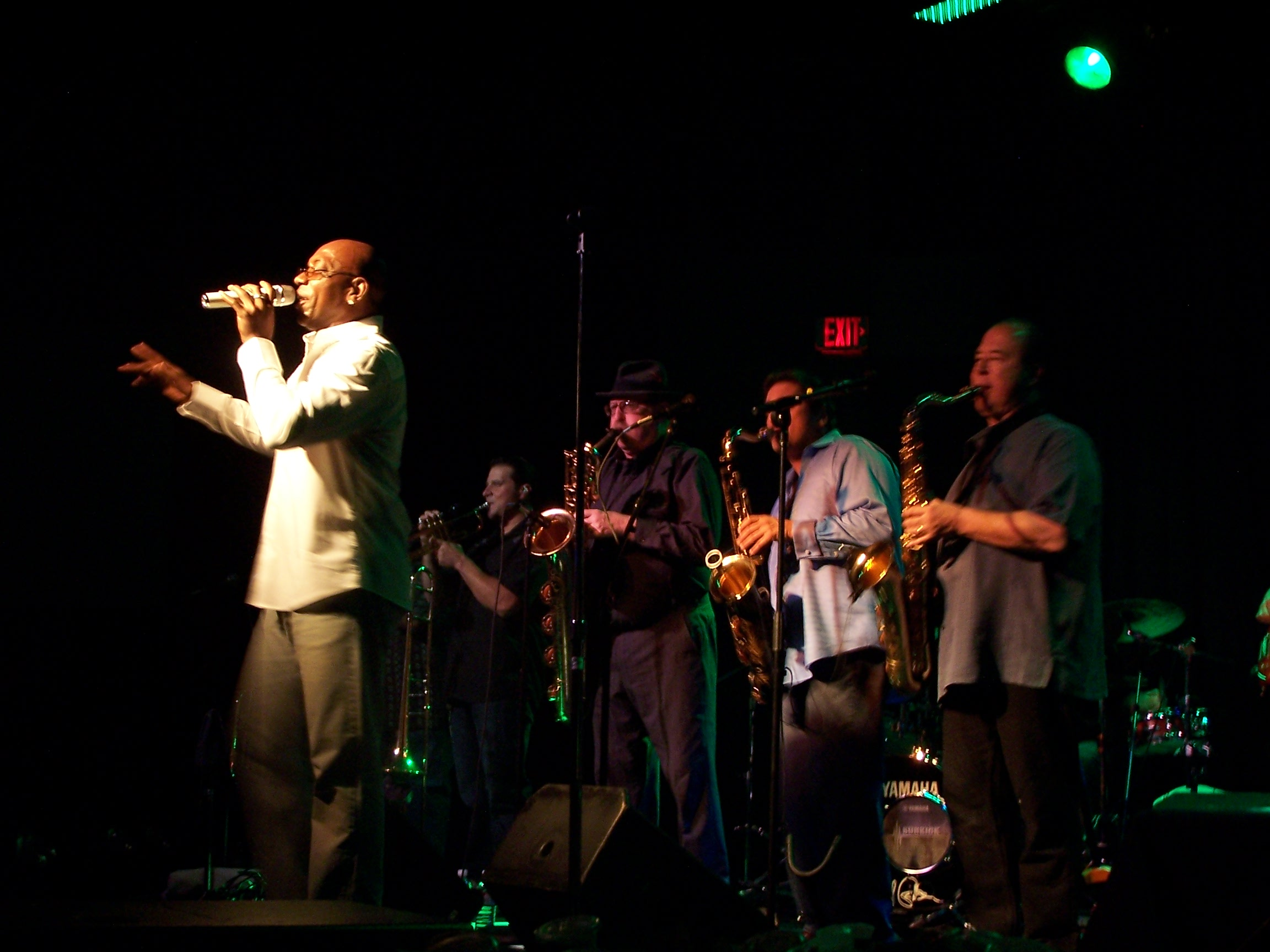 Tower Of Power perform in Buffalo, NY.